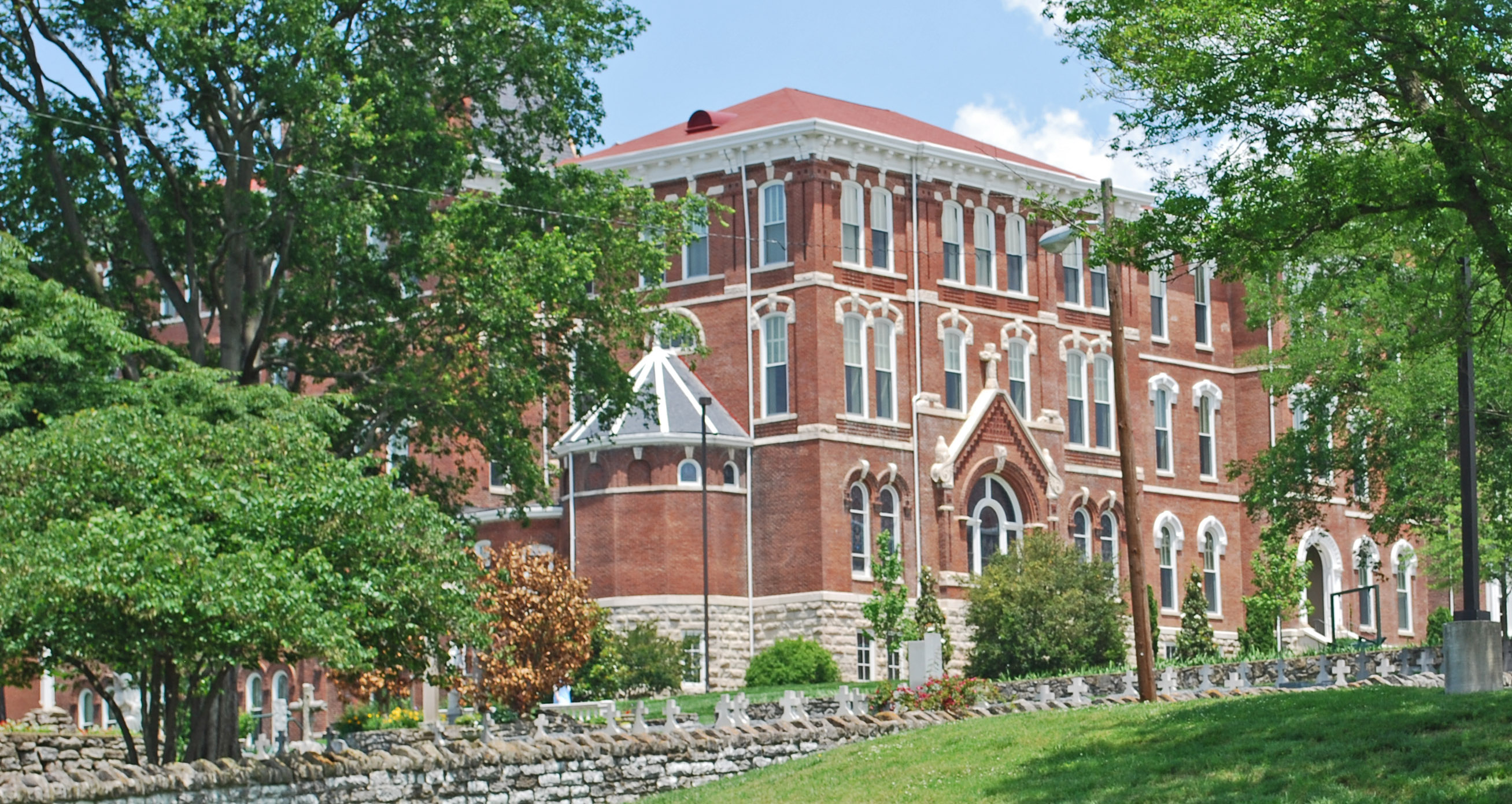 Saint Cecelia Academy, Nashville TN